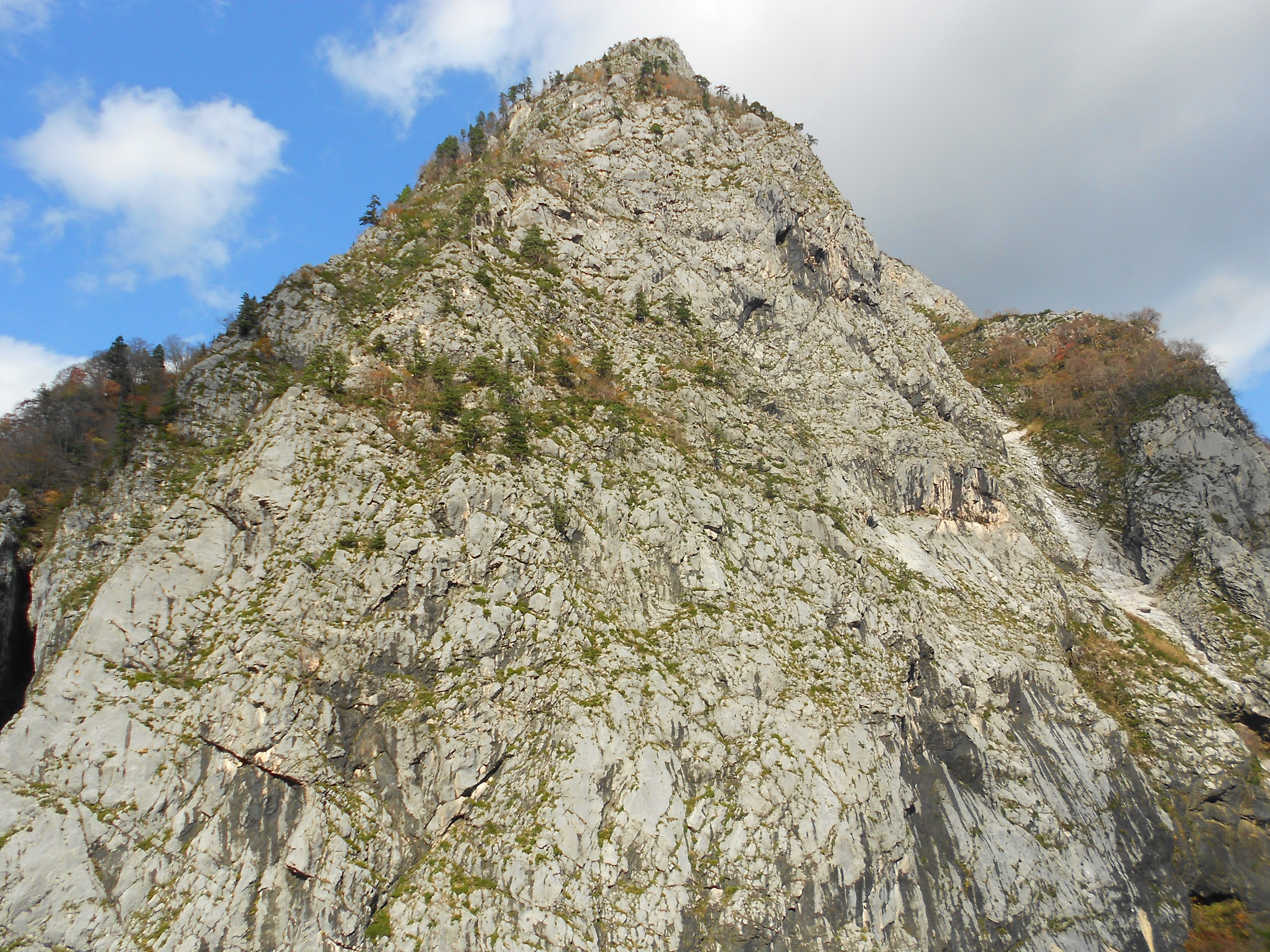 Mount Myojo south wall as seen from a observation deck